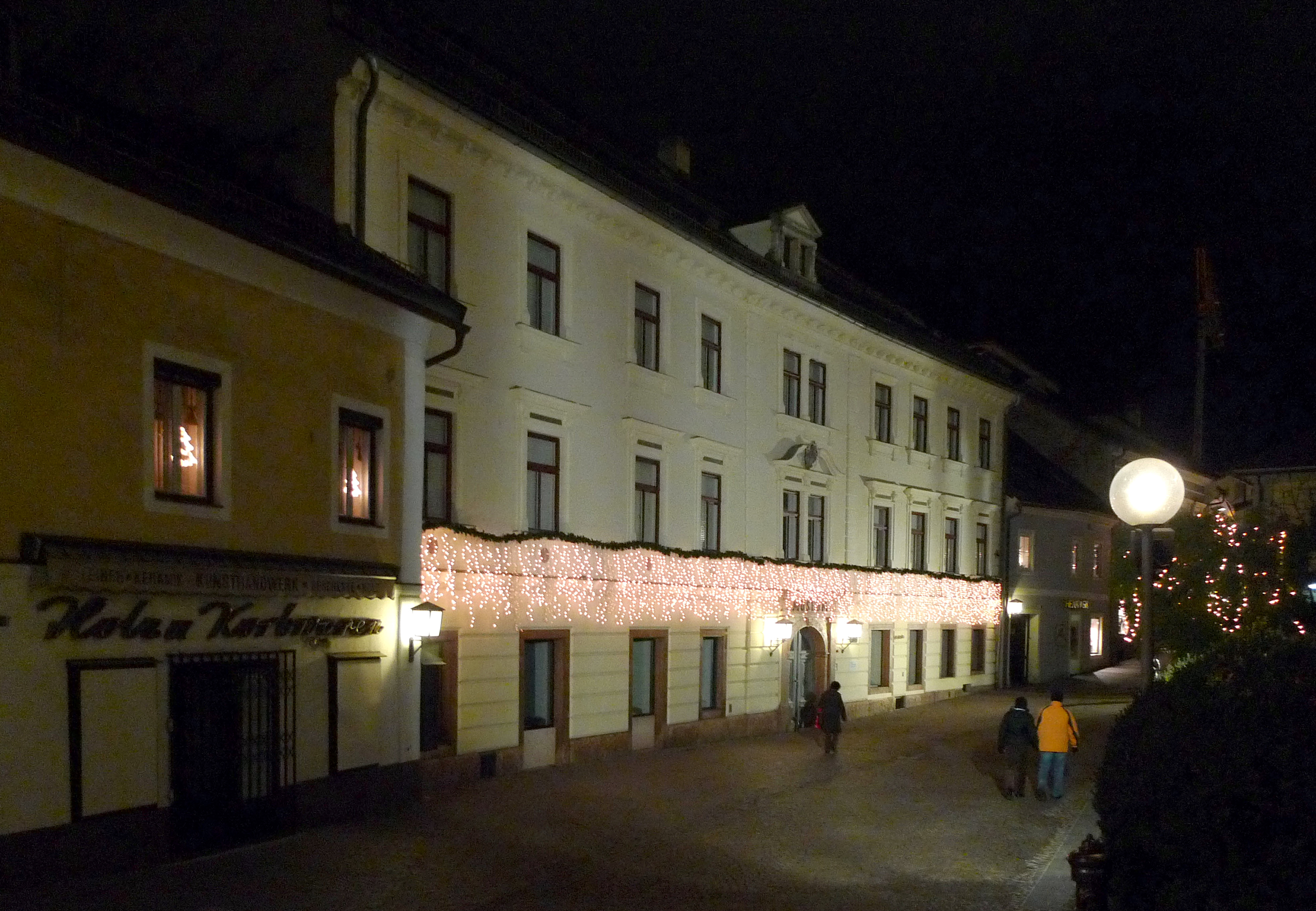 City museum on the Widmanngasse in Villach, Carinthia, Austria